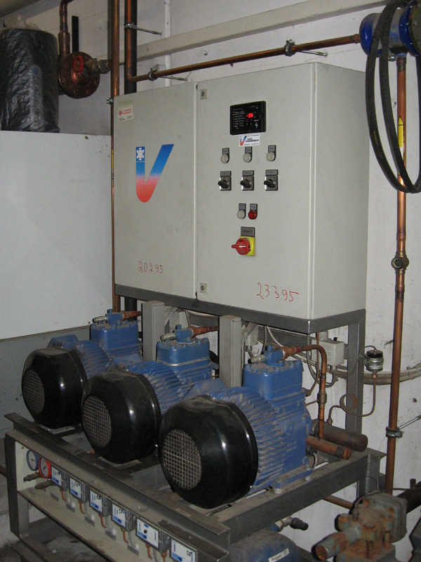 Compressors of a vapor-compression refrigeration installation